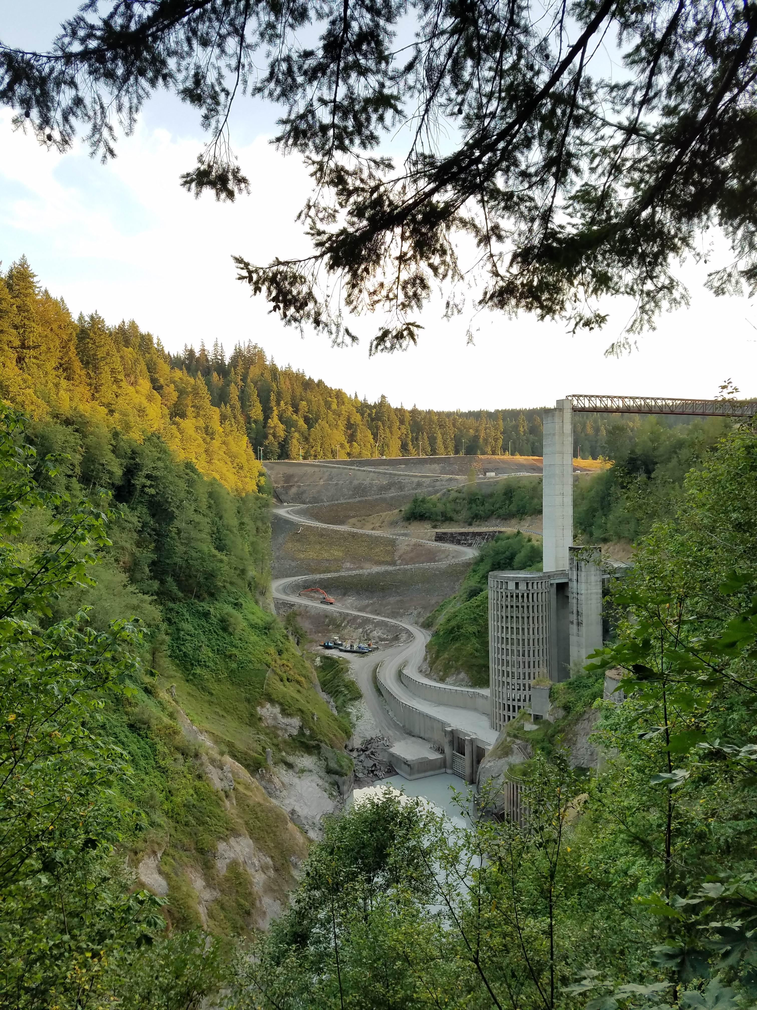 Mud Mountain Dam near Enumclaw in the U.S. state of Washington. View from the back (upstream side) of the dam, on a dry day well below flood stage.